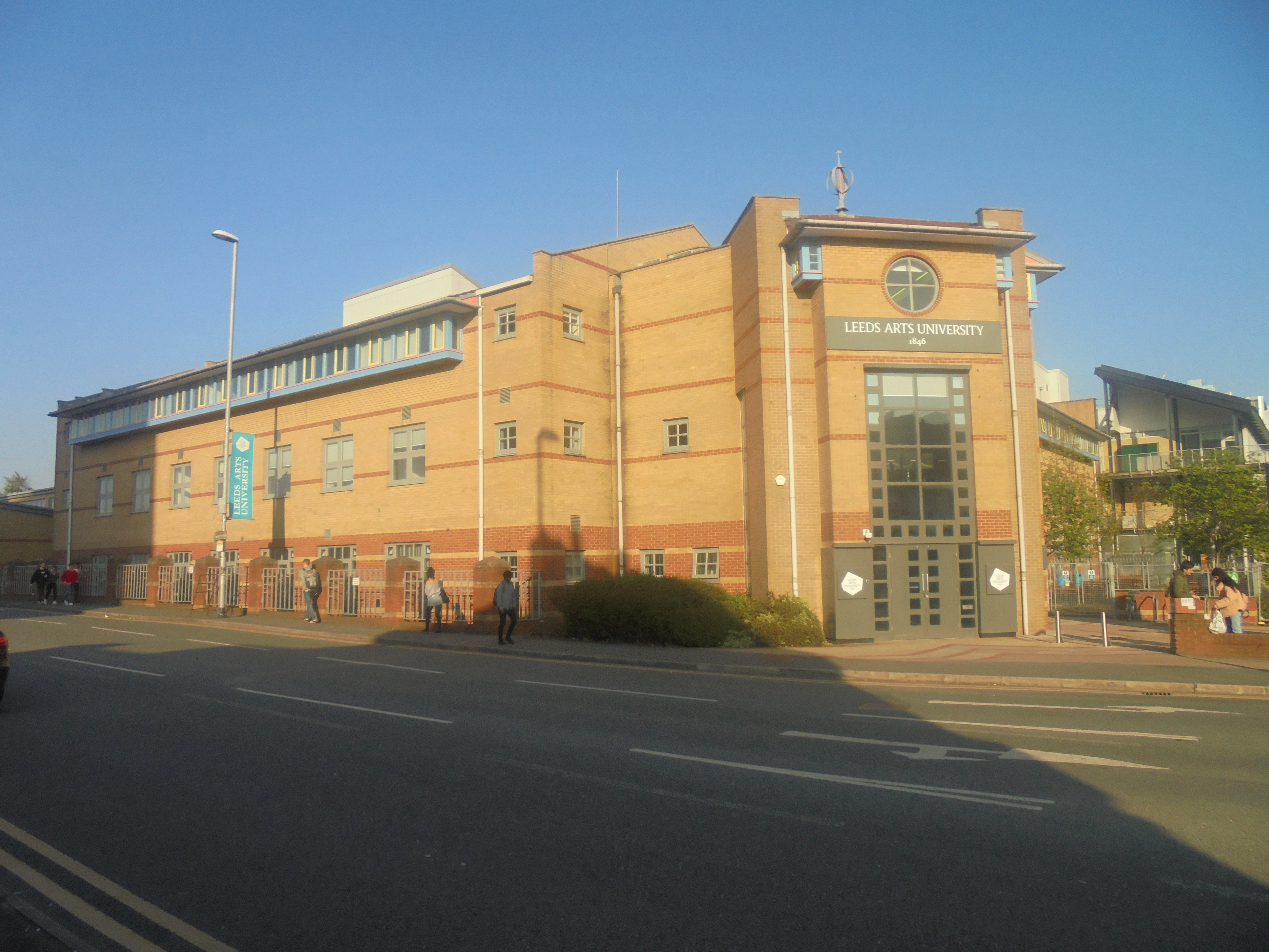 Leeds Arts University, Blenheim Walk, Leeds, West Yorkshire. Taken on the evening of Friday the 4th of May 2018.